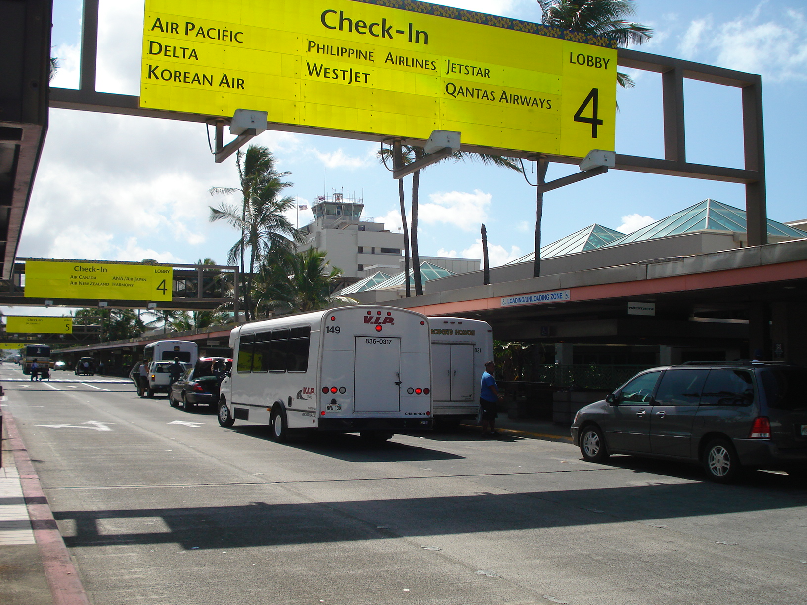 Honolulu International Airport's Departure Area